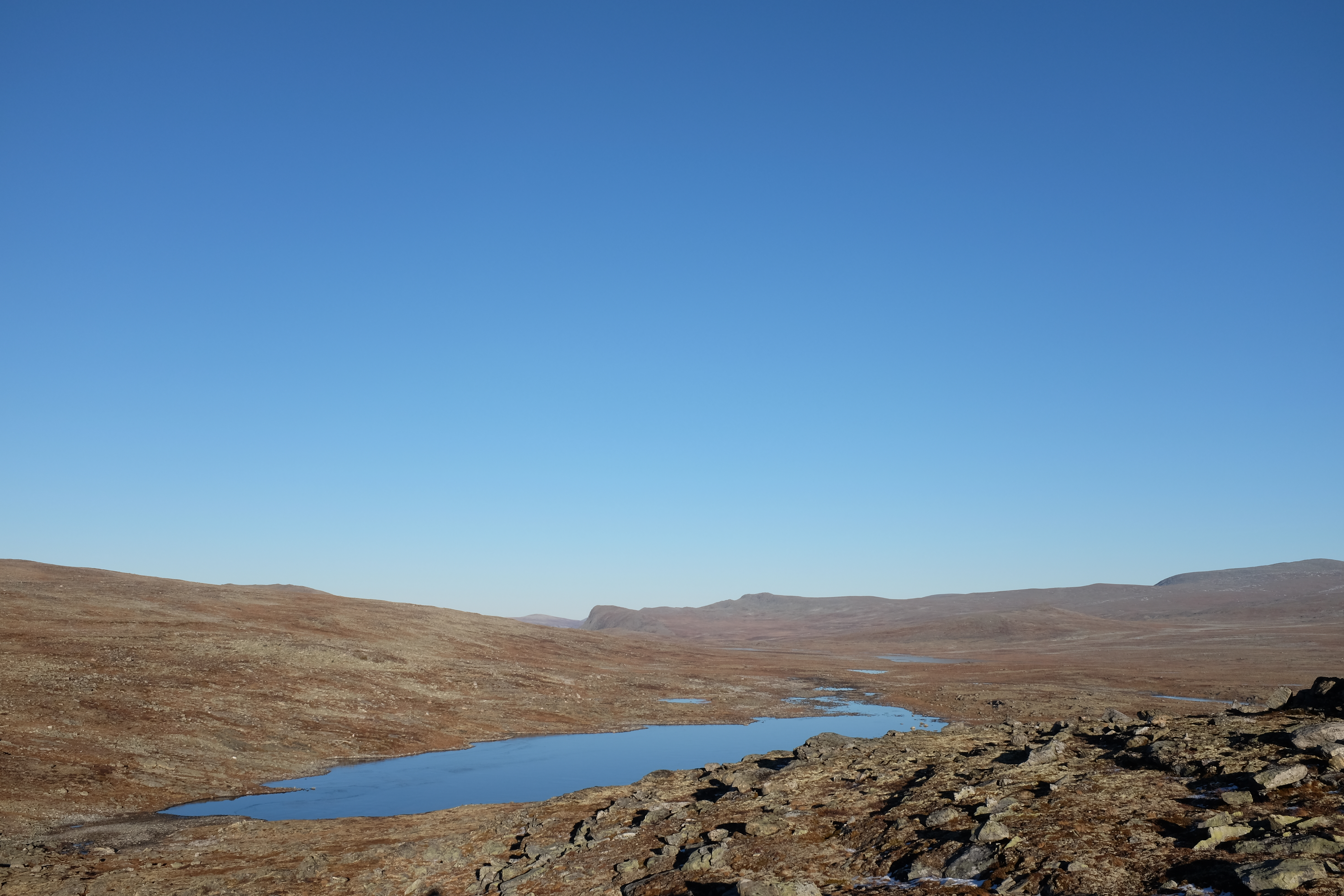 Åmotflyin plains in the end of Åmotsdalen in Dovrefjell-Sunndalsfjella National Park, Norway. Åmotselva river in the senter propagates into a smal nameless lake.